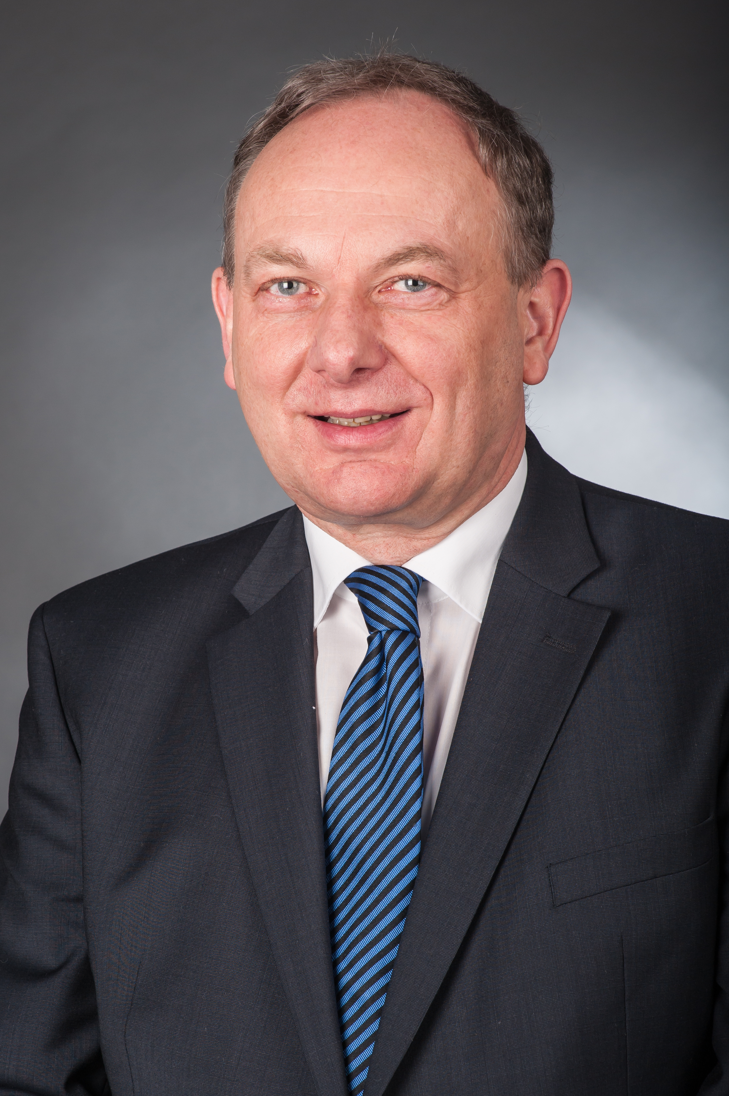 Wikipedia im Landtag – Niedersachsen 17. bis 18. April 2013 in Hannover Personality rights warningAlthough this work is freely licensed or in the public domain, the person(s) shown may have rights that legally restrict certain re-uses unless those depicted consent to such uses. In these cases, a model release or other evidence of consent could protect you from infringement claims.